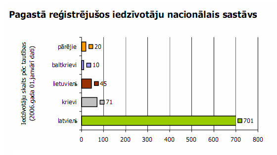 Ethnic composition of Zalve Parish, Latvia.